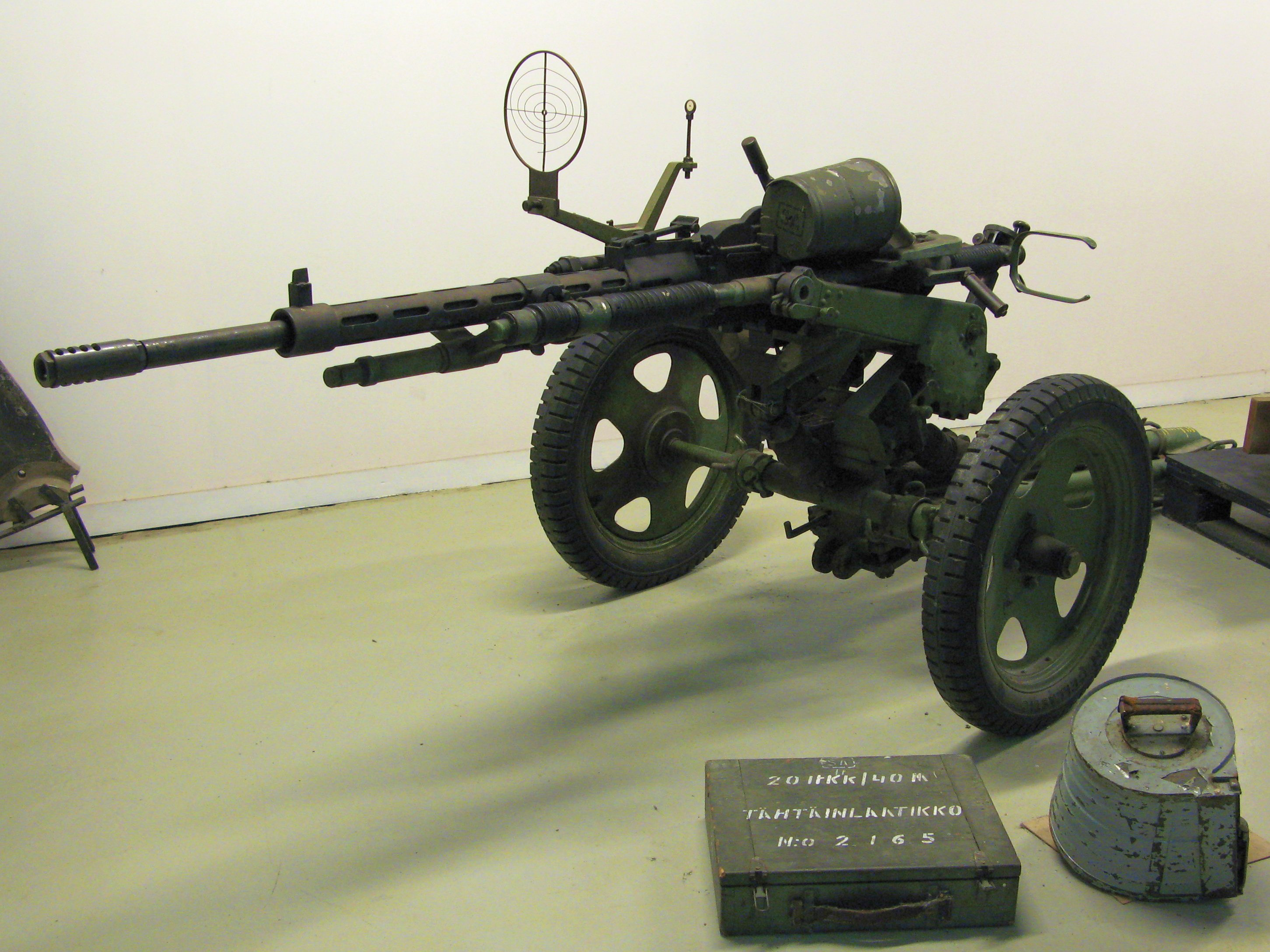 A Danish 20 mm Madsen AA gun at Finnish Aviation Museum, in Vantaa, Finland.